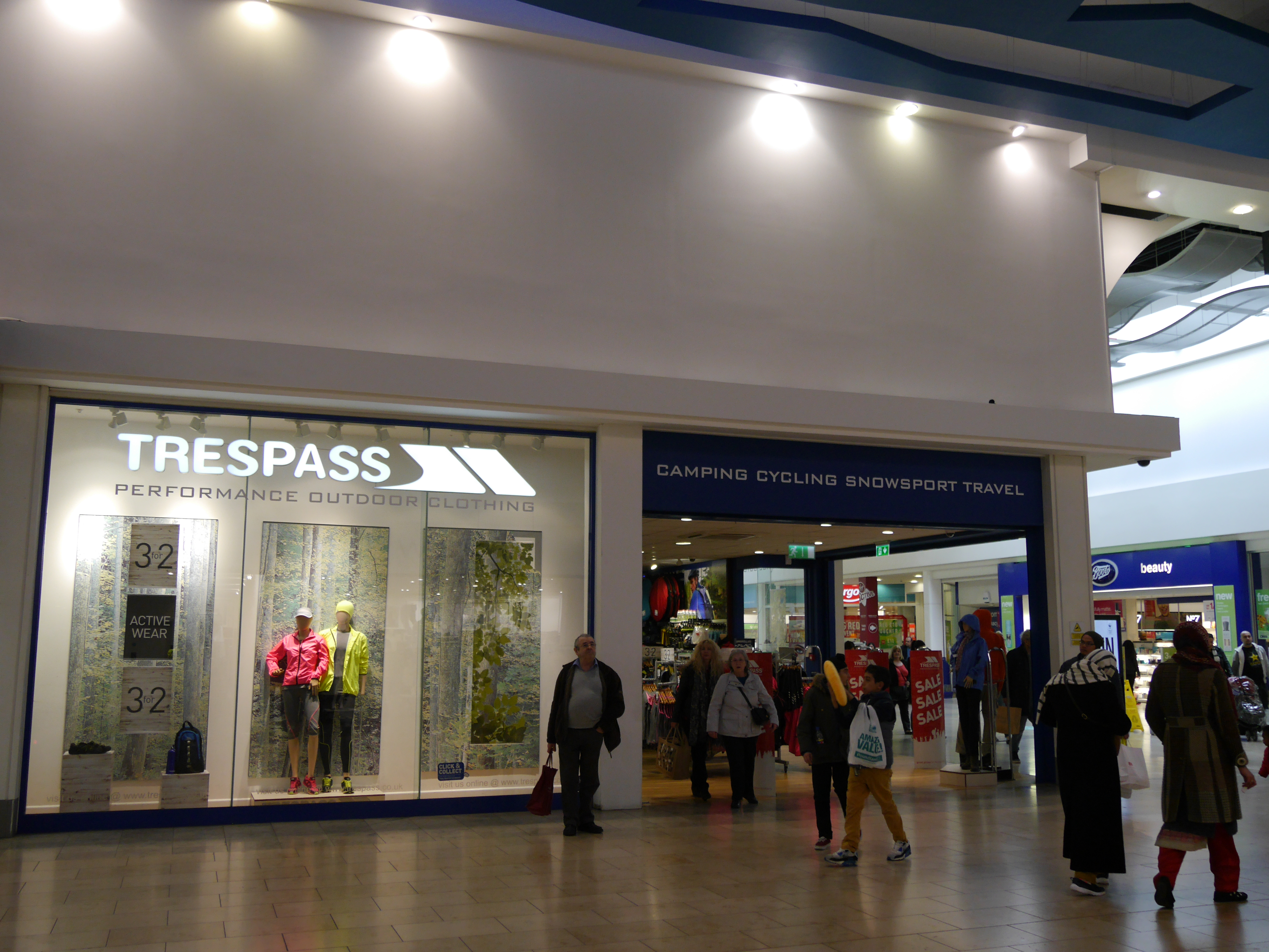 Southside Wandsworth